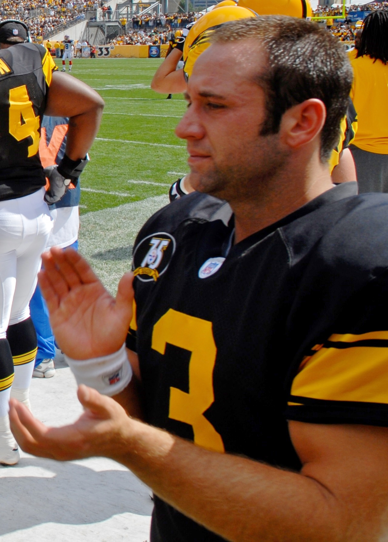 Jeff Reed on the sidelines during the Pittsburgh Steelers 2007 home opener, when the players wore throwback jerseys to celebrate the the 75th anniversary of the team.